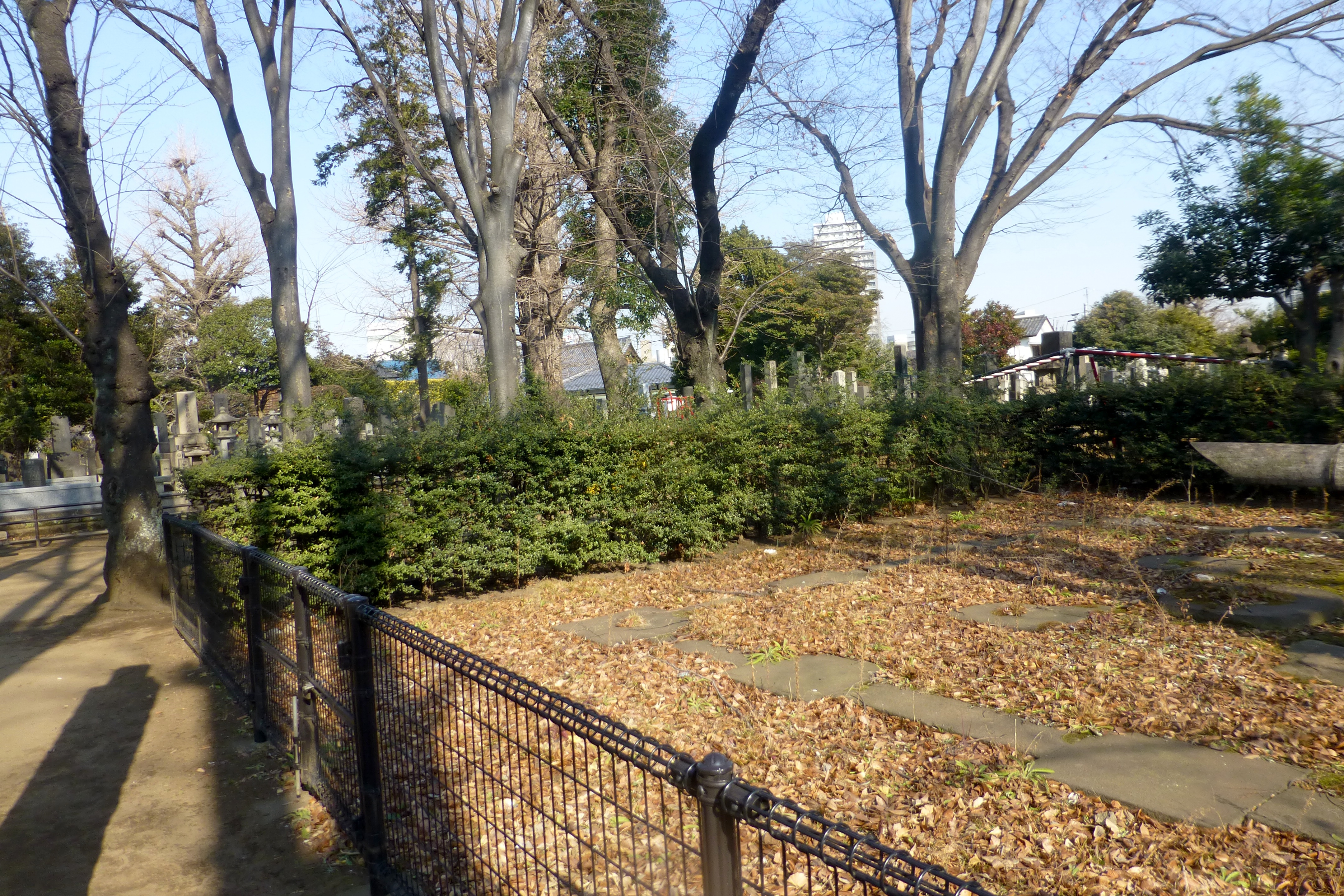 The Yanaka Five-Storied Pagoda Double-Suicide Arson Case (谷中五重塔放火心中事件) was a dramatic case of arson in 1957 of a five-storied wooden pagoda in Yanaka Cemetery, Taitō, Tokyo. The pagoda was set on fire by two lovers who committed suicide together -- their bodies were found in the remains of the structure. This is all that remains (the base stones) of the Pagoda.